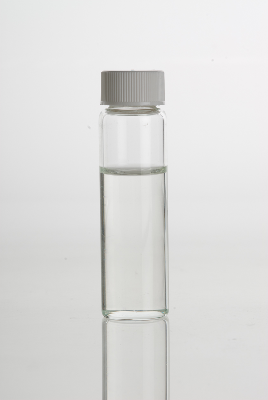 Fractionated Coconut (Cocos nucifera) Oil in clear glass vial